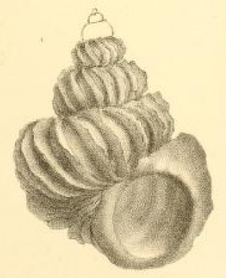 Illustration of the holotype of seashell Sthenorytis pernobilis (P. Fischer & Bernardi, 1857) collected in Marie-Galante, an island of the West Indies in the Caribbean Sea located south of Guadeloupe and north of Dominica (seen from below).